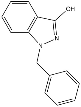 An example of a 1H-indazole, 1-Benzyl-3-hydroxy-1H-indazole